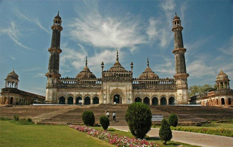 Asfi Mosque